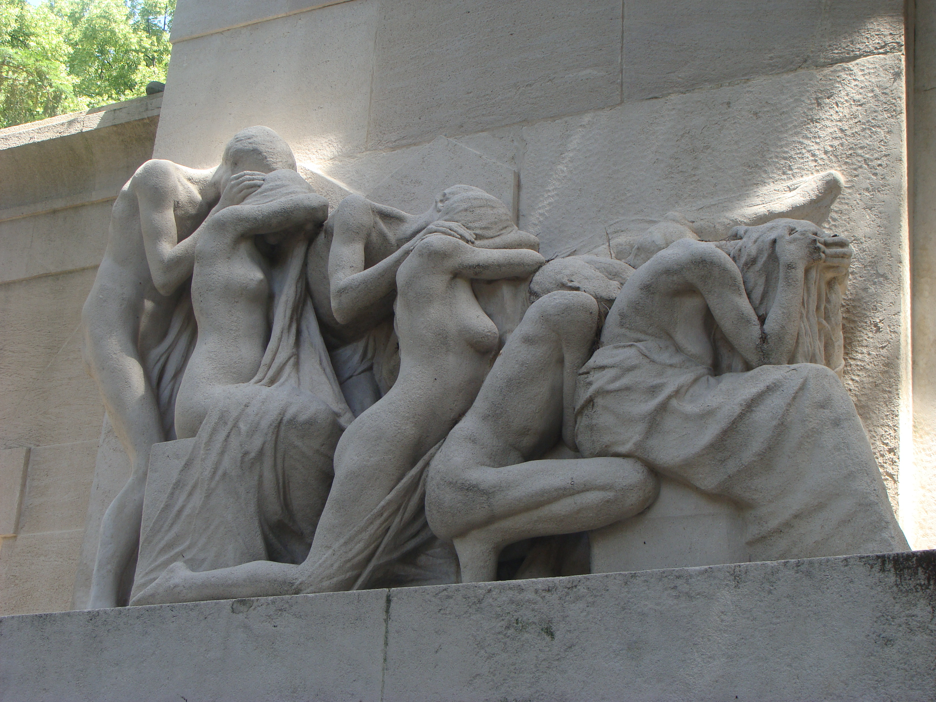 Monument to the Dead